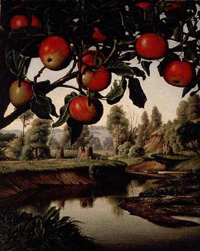 Landscape with Apple Tree